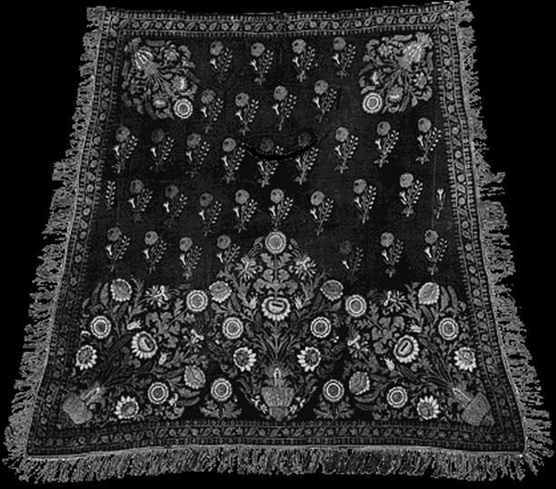 Saddle cloth of Sigismund III Vasa.